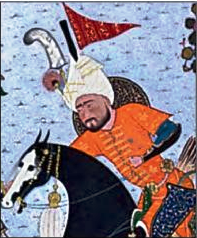 Painting of Bizhan in The Shahnama of Shah Tahmasp